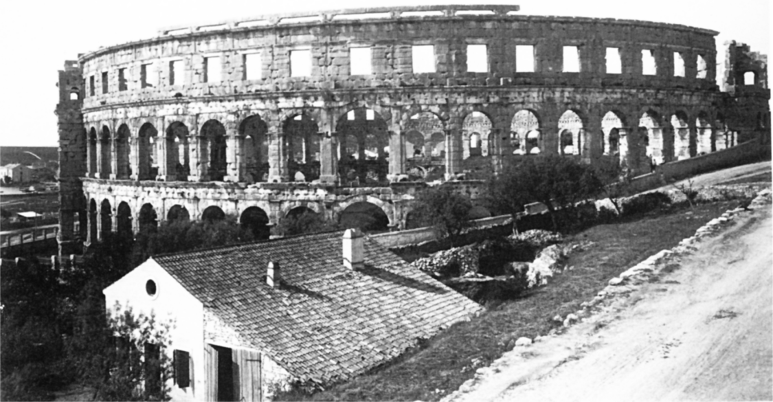 Alois Beer, Southside view of the amphitheatre in Pula around 1900.